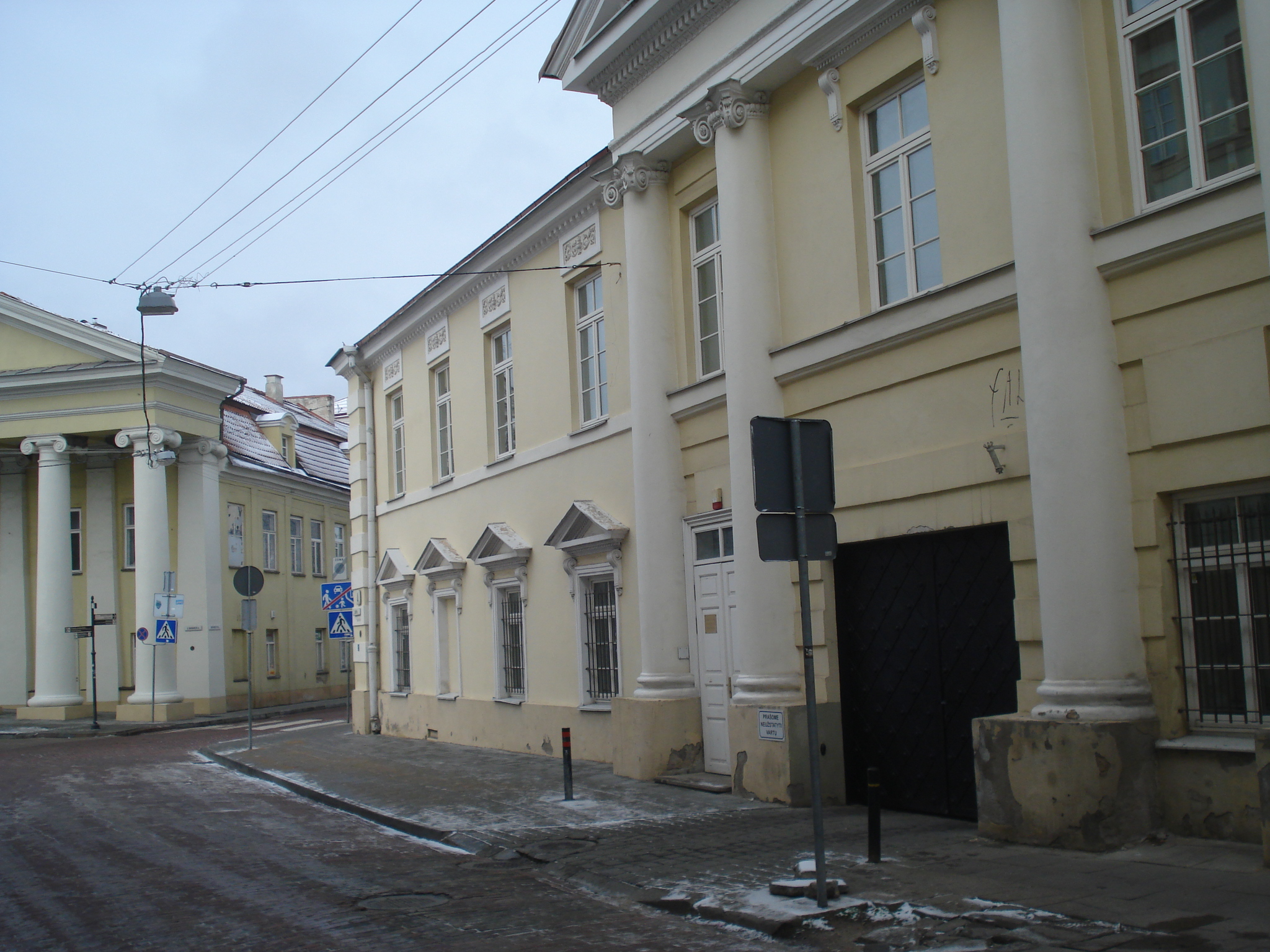 Stanislovo Skapo street 4. Lopacinskiai (Sulistrovskiai) Palace (Vilnius, Lithuania)